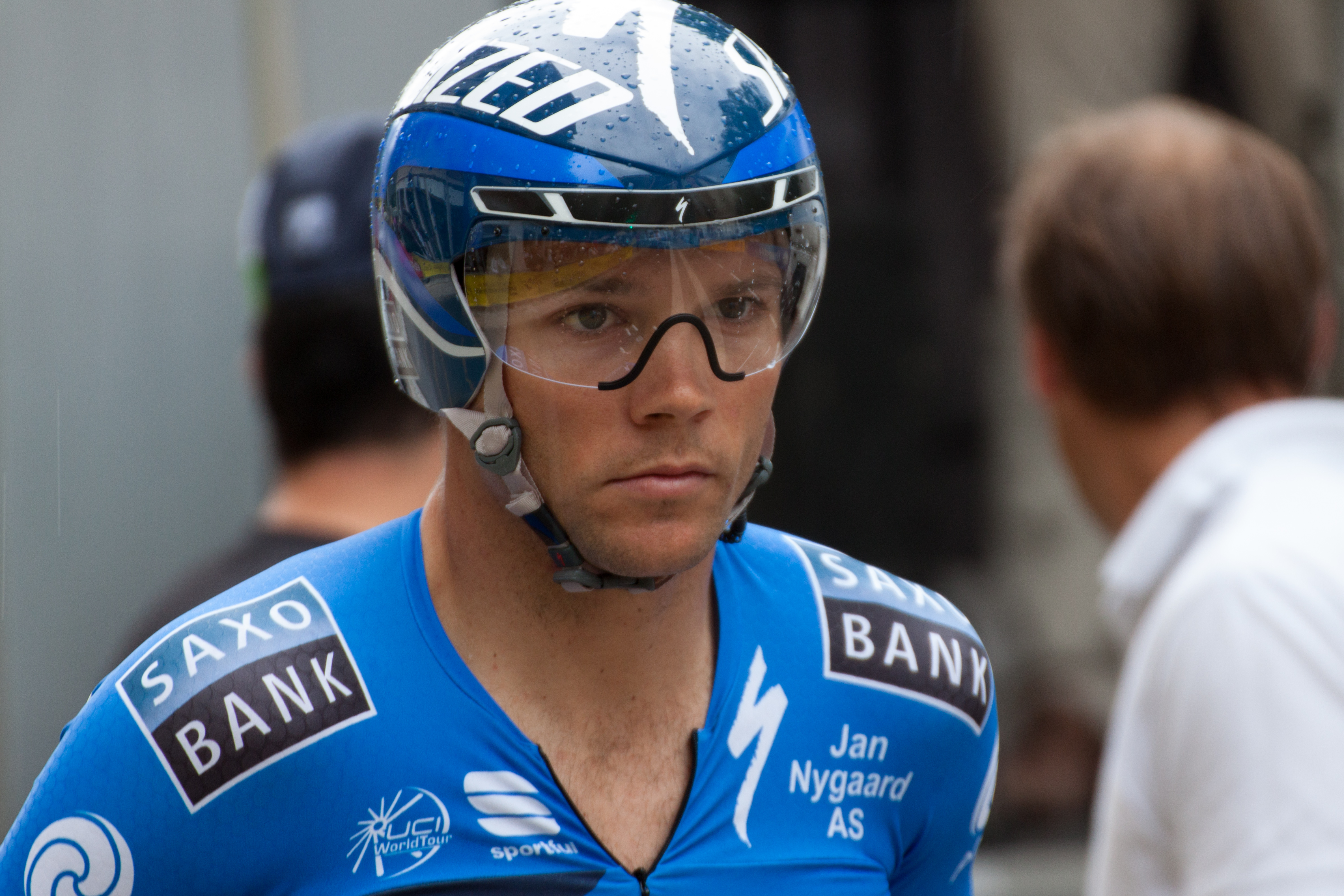 Depicted person: Jonathan Cantwell – Australian road racing cyclist